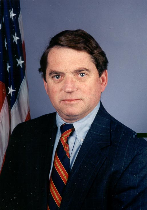 Thomas C. Hubbard, United States Ambassador.